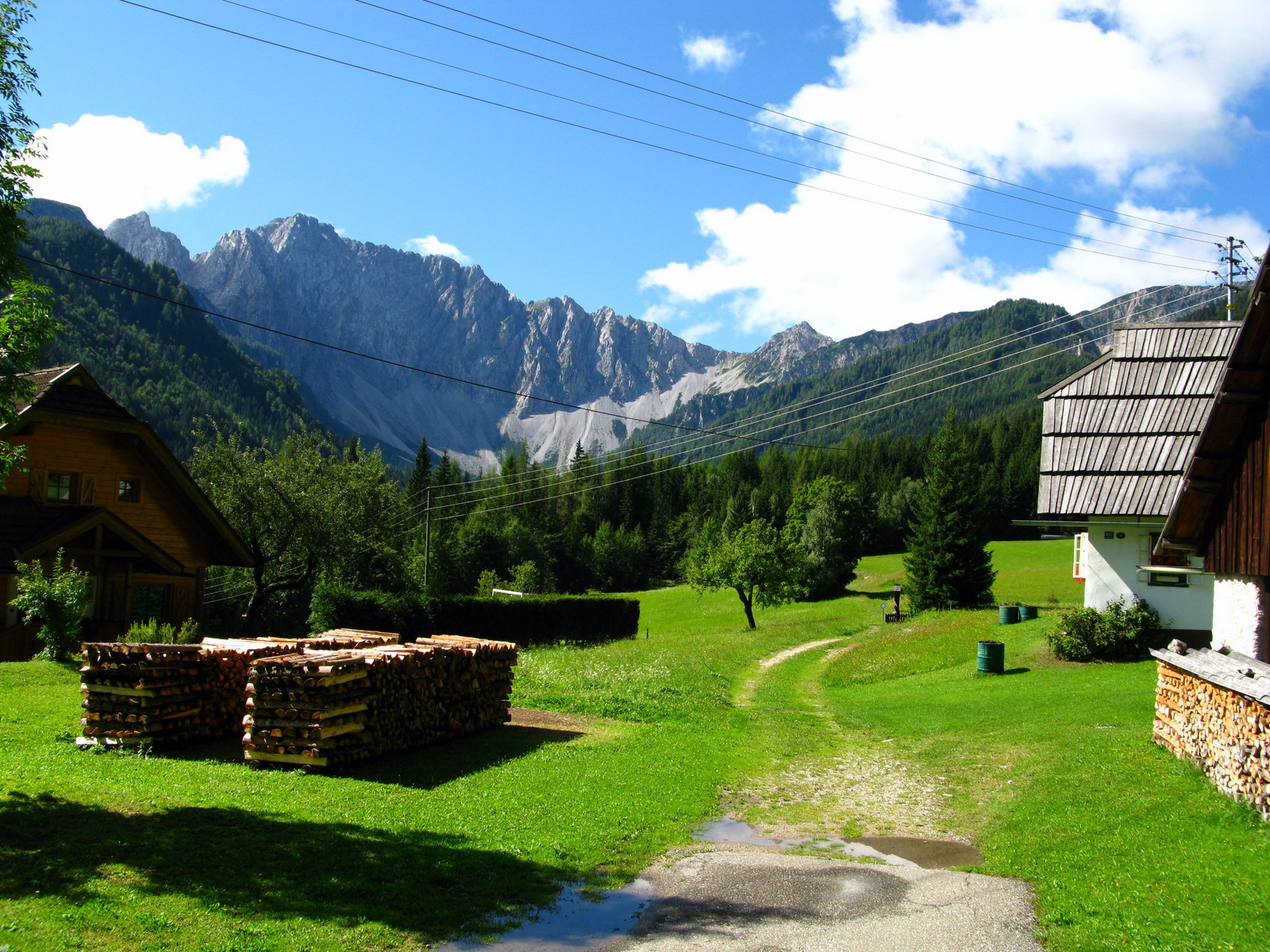 Alpine farm in a valley in the Karawanken near Ferlach / Carinthia / Austria / European Union. Brief description: wooden roof, firewood, vantage point, limestone alps, grass, rocks, steep rugged rock, summer. ⇒ The same camera position in Winter 2008.